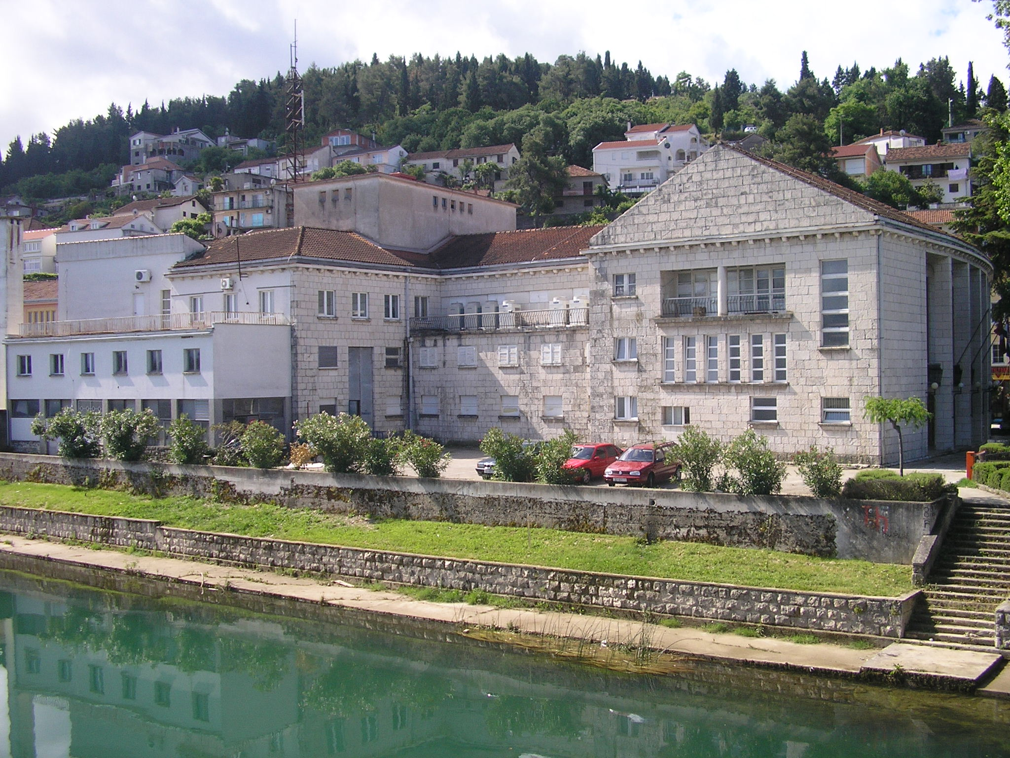 Theatre building in Metković, Croatia